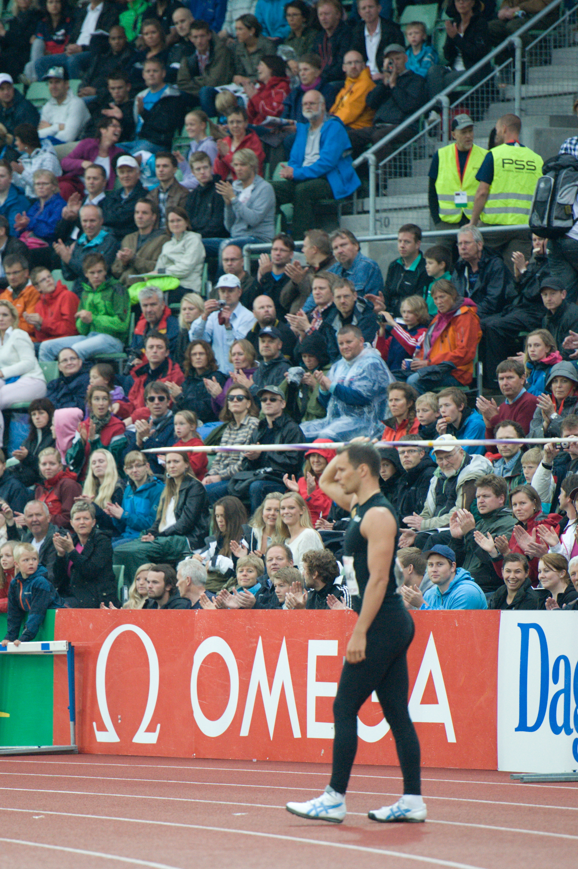 Tero Pitkämäki, Bislett Games 2011